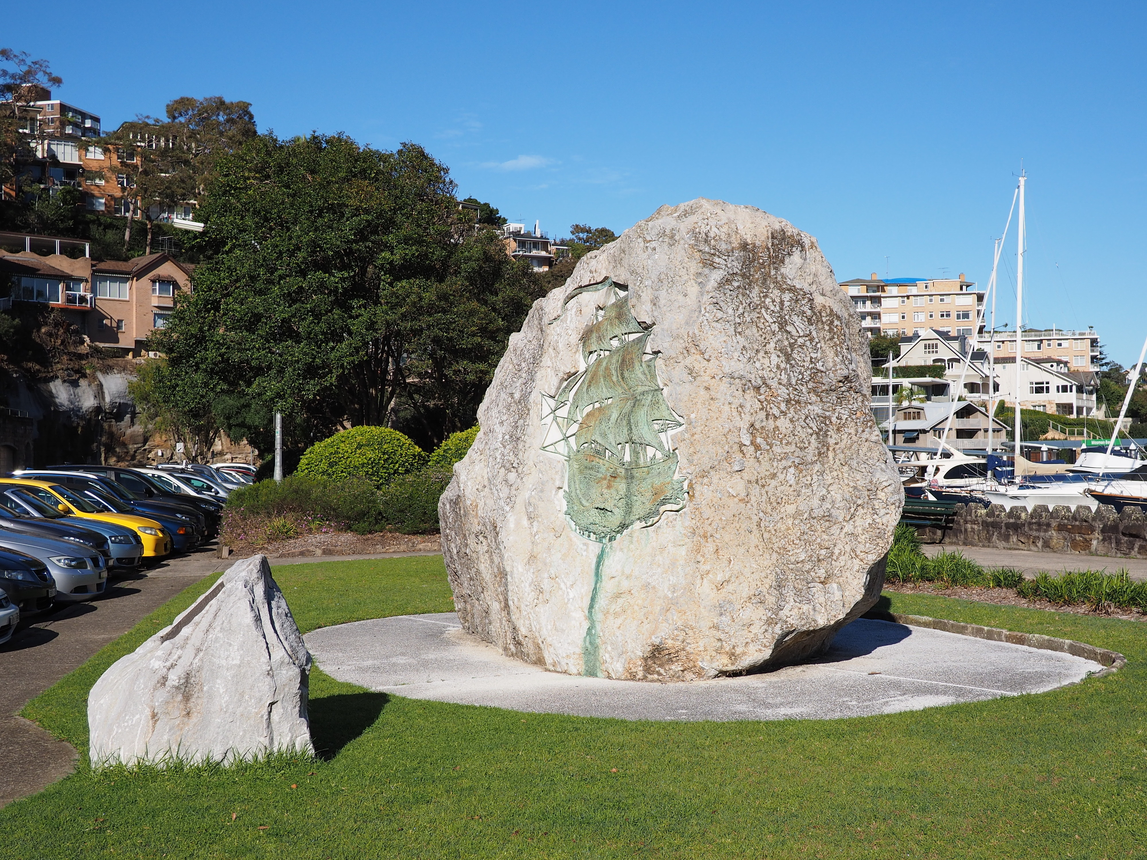 The memorial to the British warship HMS Sirius in Mosman. It commemorates repairs which were undertaken to the ship at Mosman Bay between June and November 1789.